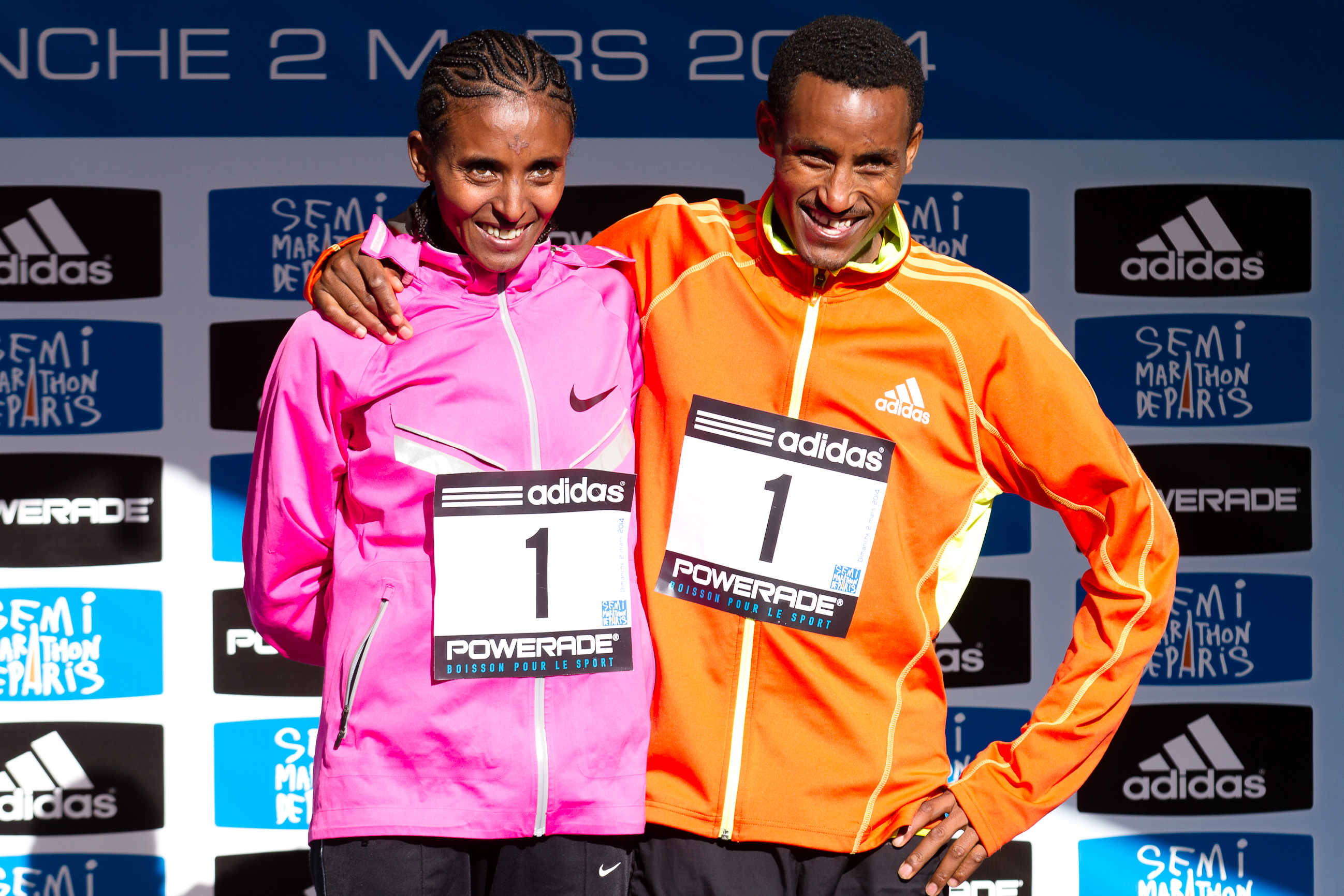 Yebrugal Melese and Mulle Wasihun, the two winners of Paris Half Marathon 2014.